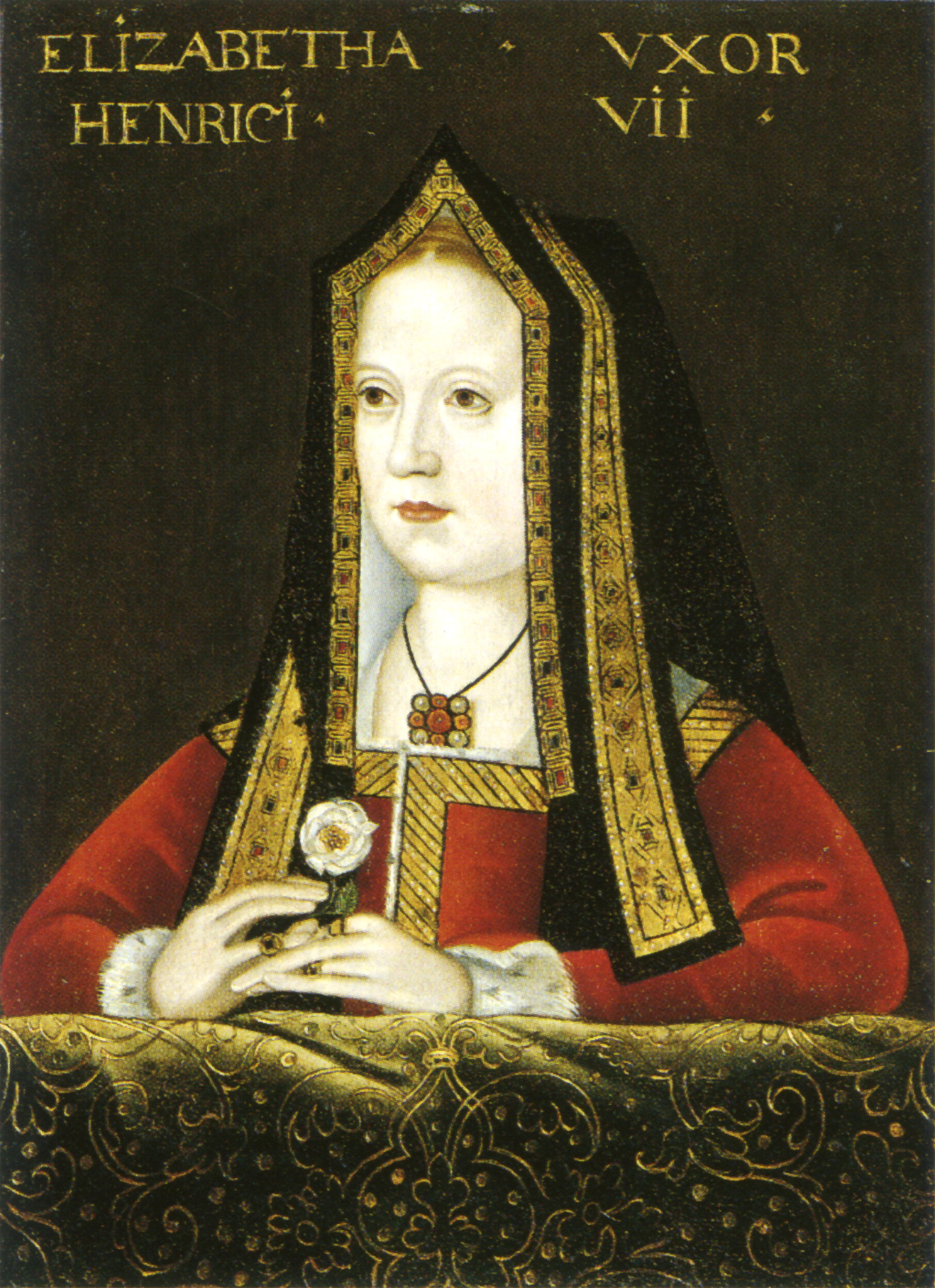 This image is a JPEG version of the original PNG image at File: Elizabeth of York from Kings and Queens of England.png. Generally, this JPEG version should be used when displaying the file from Commons, in order to reduce the file size of thumbnail images. However, any edits to the image should be based on the original PNG version in order to prevent generation loss, and both versions should be updated. Do not make edits based on this version. See here for more information.